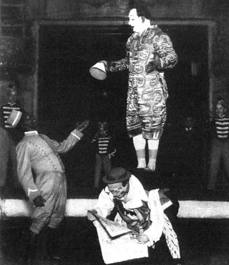 Spanish clowns Pompoff, Thedy & Emig